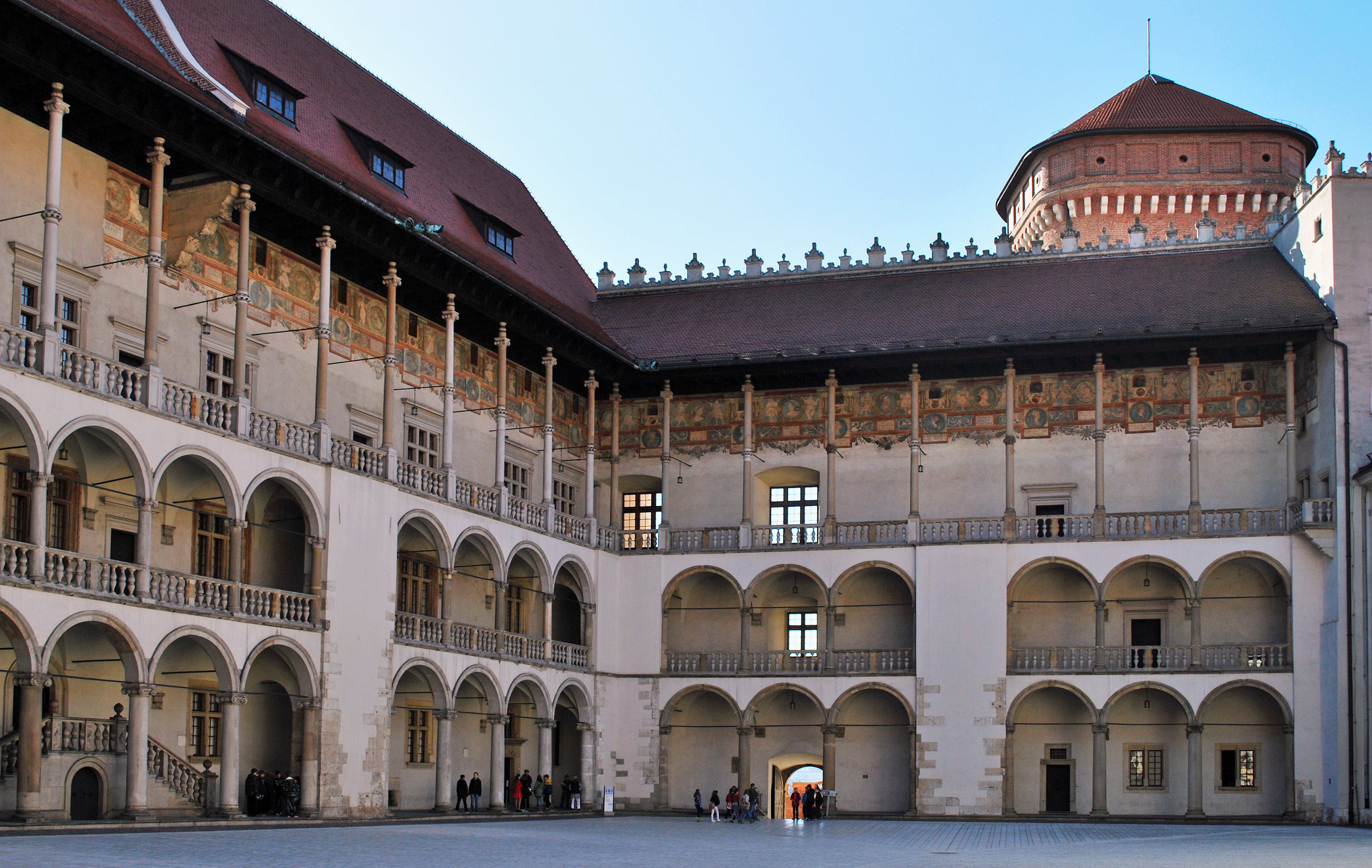 Wawel Royal Castle courtyard (SE), 4 Wawel, Old Town, Krakow, Poland